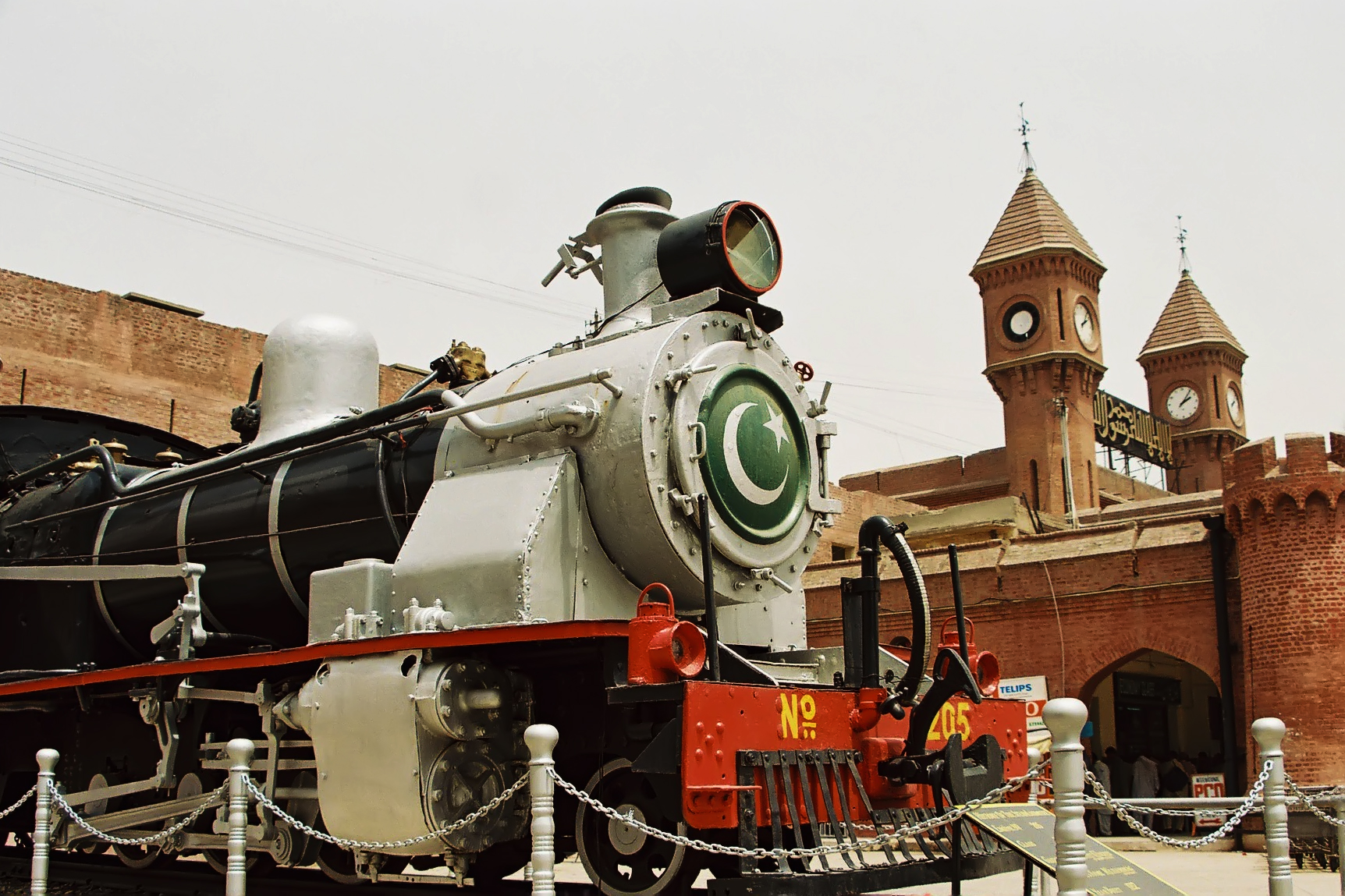 Lahore Junction railway station This is a photo of a monument in Pakistan identified as the PB-P-80